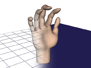 Illustration of a graphics card working process